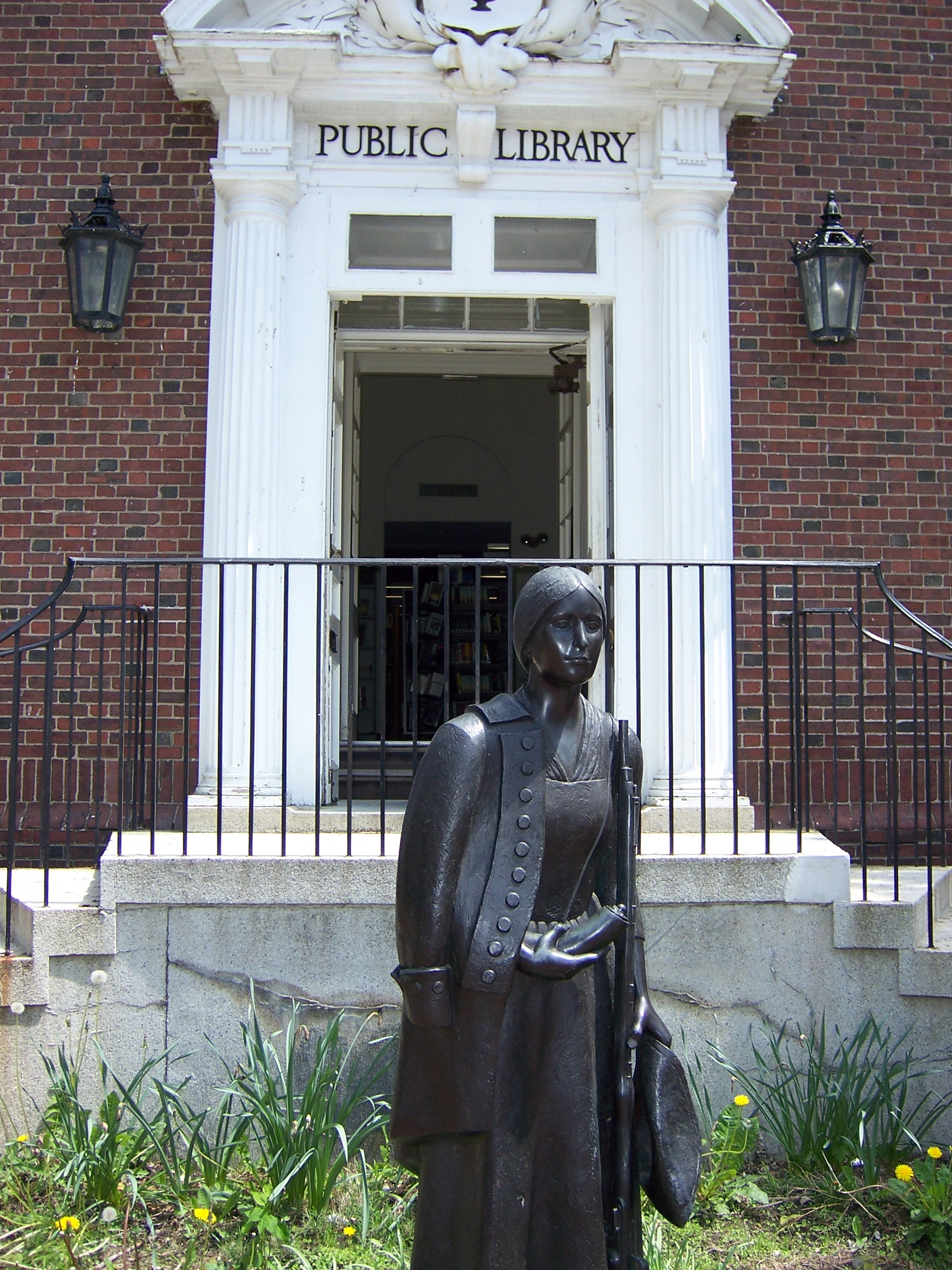 Statue of Deborah Sampson outside the Sharon public library.